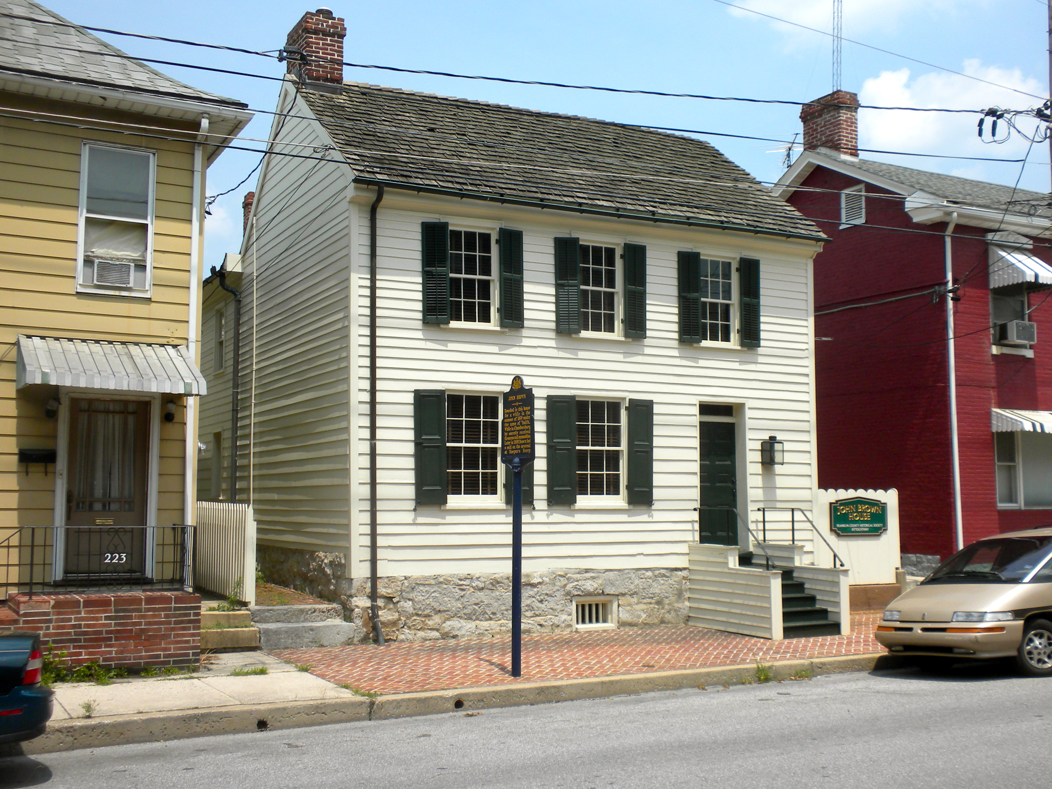 John Brown House in Chambersburg, PA on NRHP since March 5, 1970. At 225 East King Street, Chambersburg. Brown, the abolitionist, stayed here during the summer of 1859 while receiving supplies and recruits for his raid on Harpers Ferry, VA (fairly close to here). A couple of raiders returned very briefly to the house after the raid, while escaping.